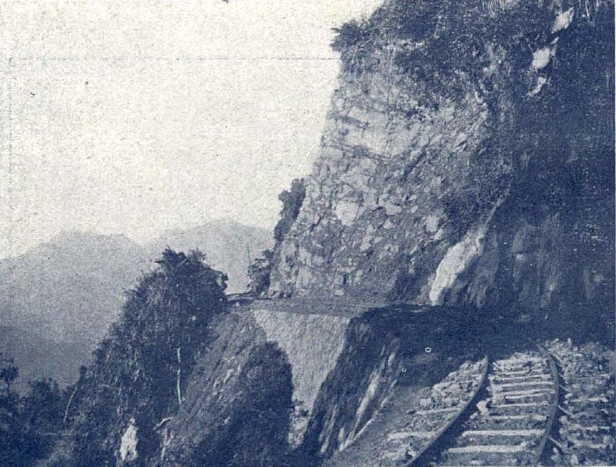 caption from the book: 阿里山鐵道奮起湖附近嶮崖